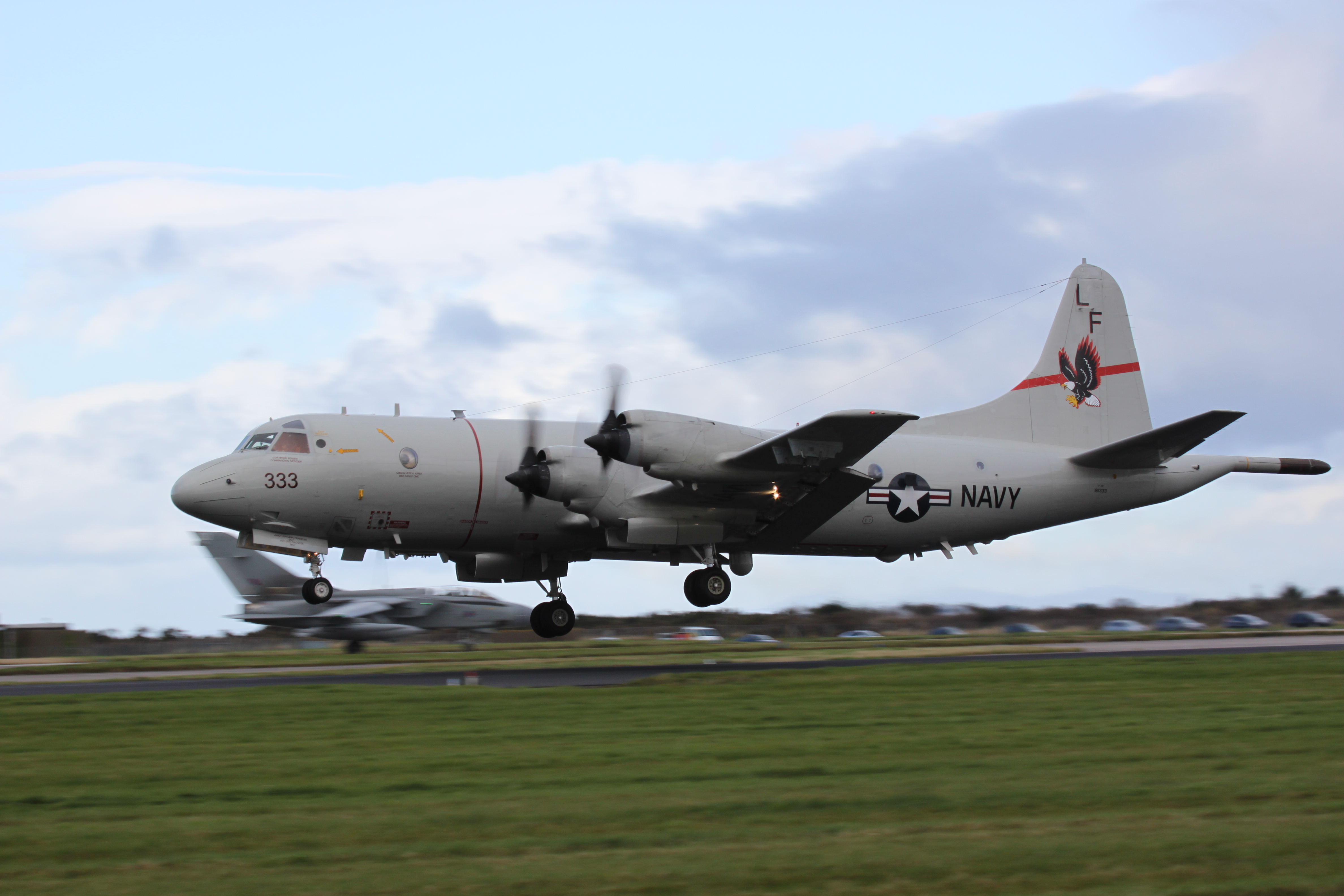 VP-16's colour bird again.